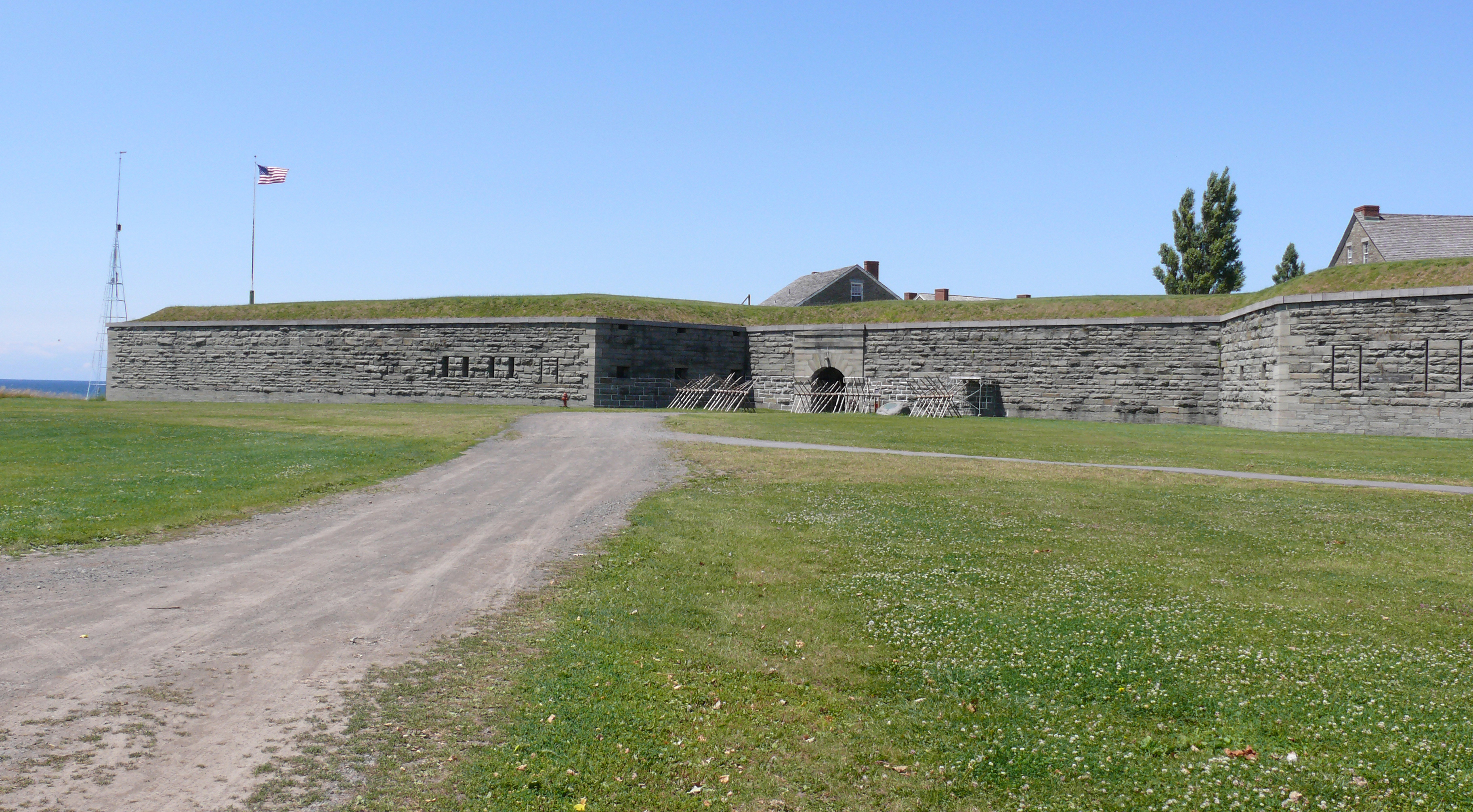 Fort Ontario is an historic fort situated by the city of Oswego, New York. Fort Ontario is een historische vesting gelegen bij Oswego, New York.